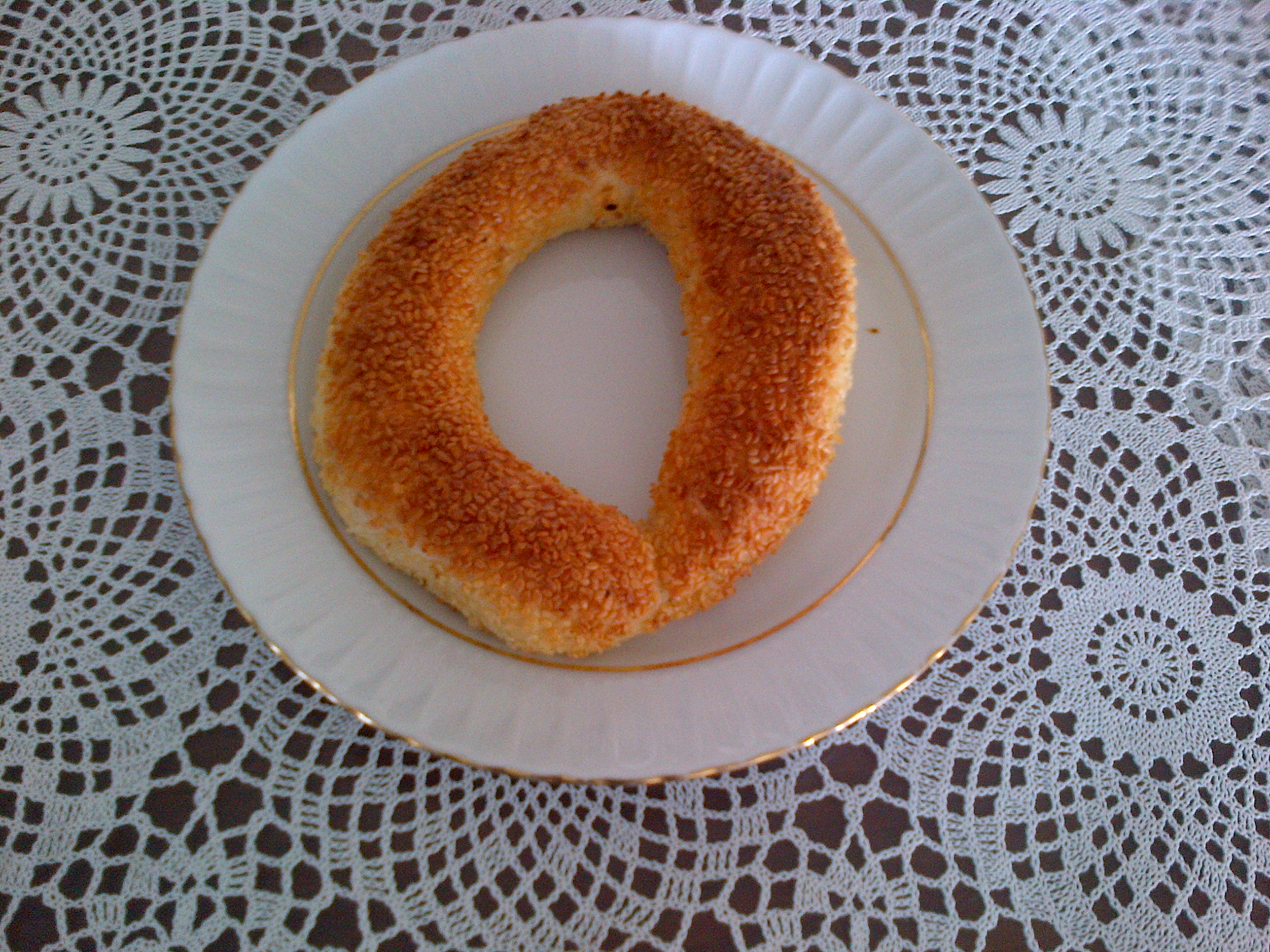 Good quality Turkish simit, not sold in the streets but in specialized commerce.